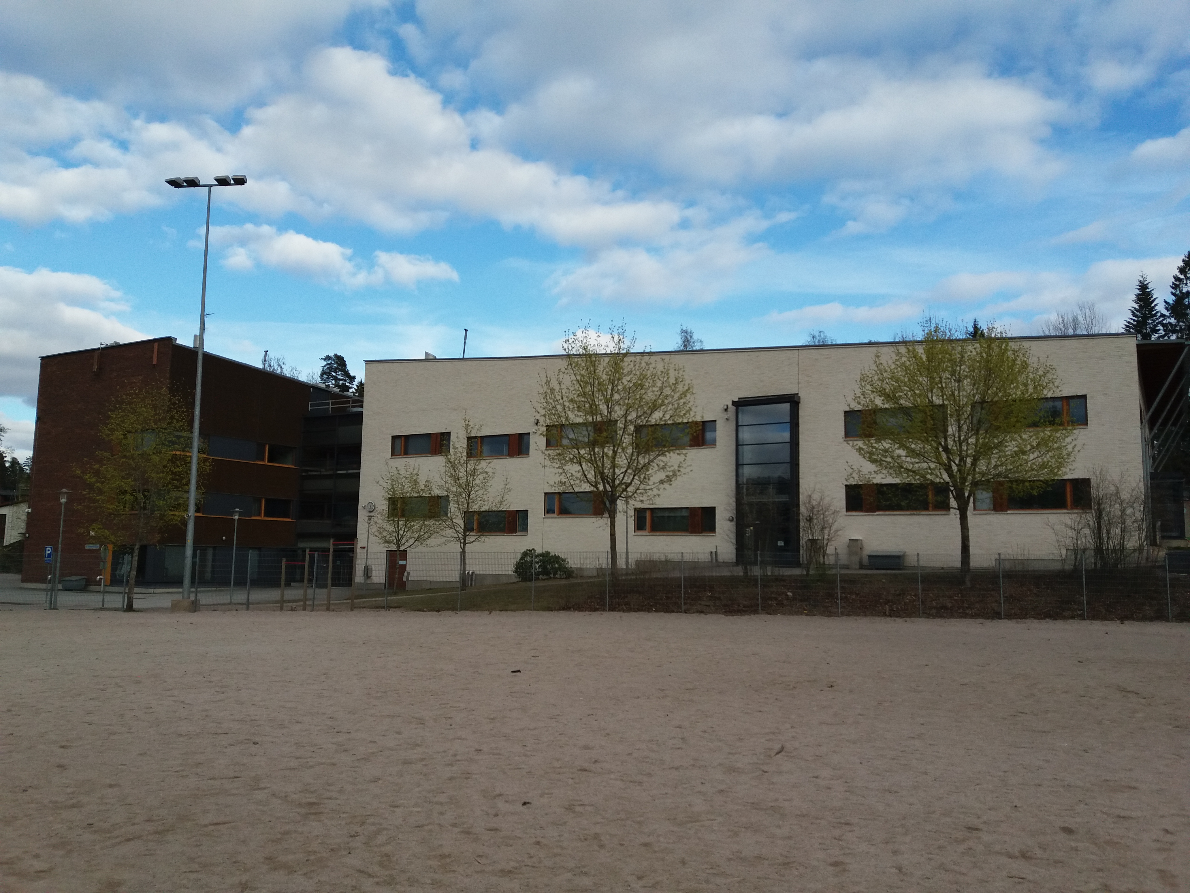 An elementary school in district Ymmersta, Espoo, Finland